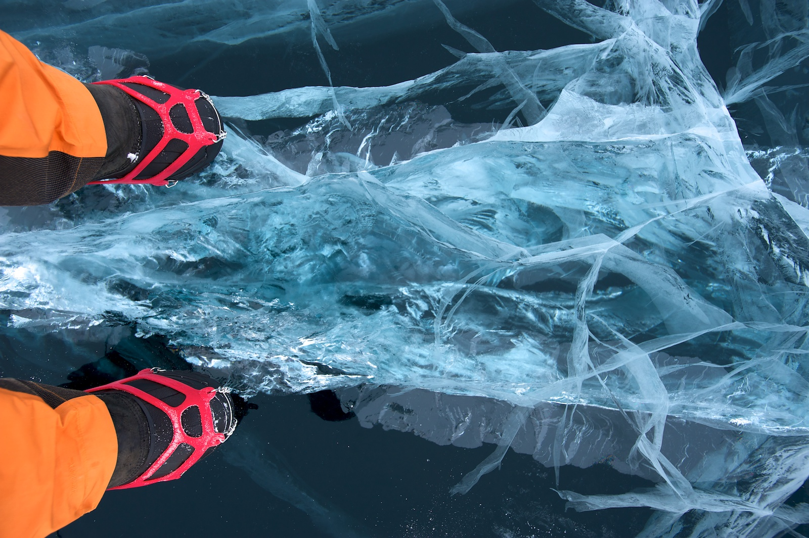 The Czech expedition Bergans Baikal 2010 with an aim to cross the lake Baikal lengthwise took place in February and March 2010. This picture depicts a cracks in the ice covering the surface of the lake Baikal.